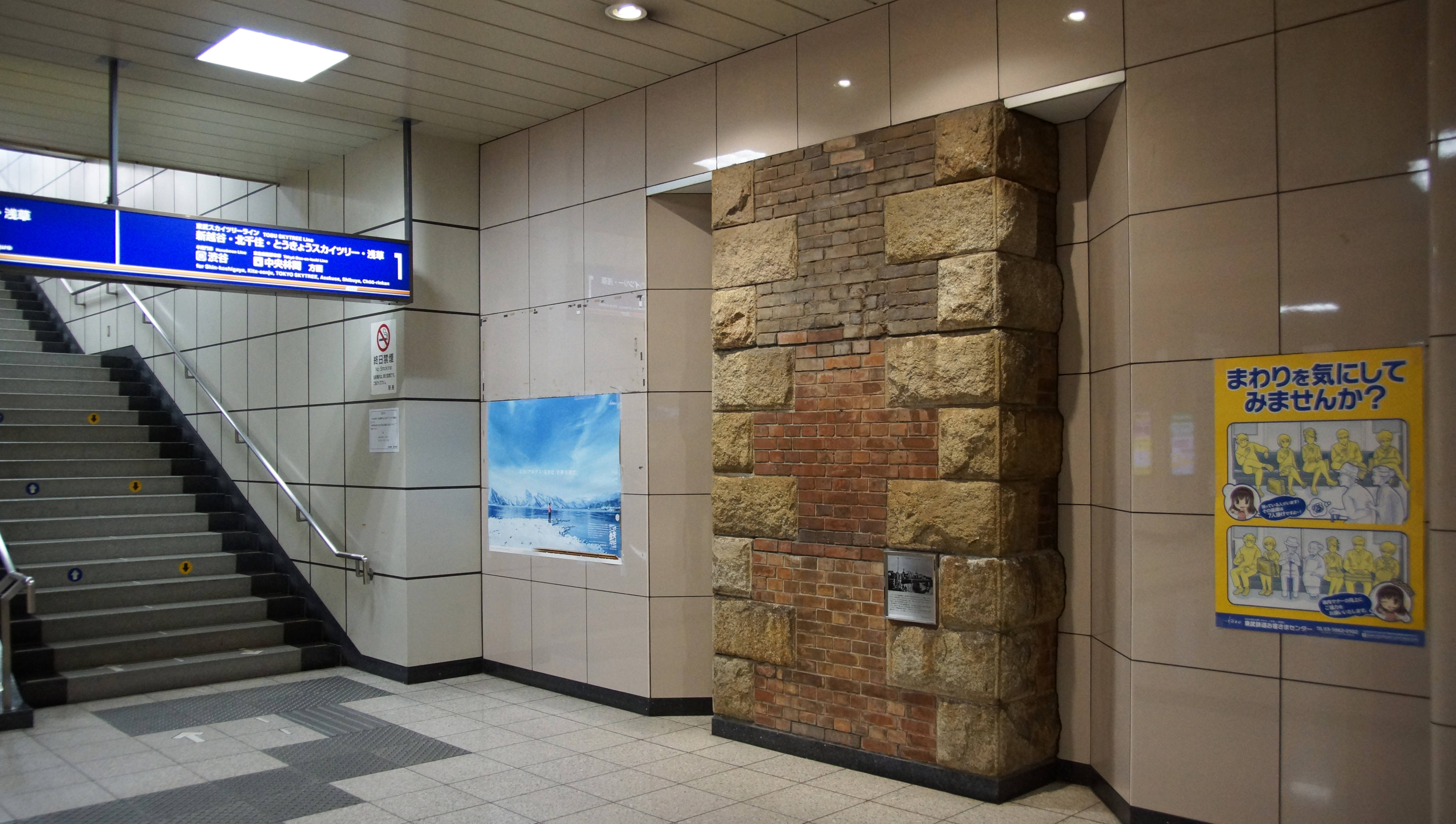 Brickwork formerly used in a railway viaduct over the Old Arakawa River between Koshigaya and Kita-Koshigaya stations from 1899 until 1994 preserved inside Koshigaya Station on the Tobu Skytree Line in Saitama Prefecture, Japan. The brickwork was installed in the station as a monument in December 1995.